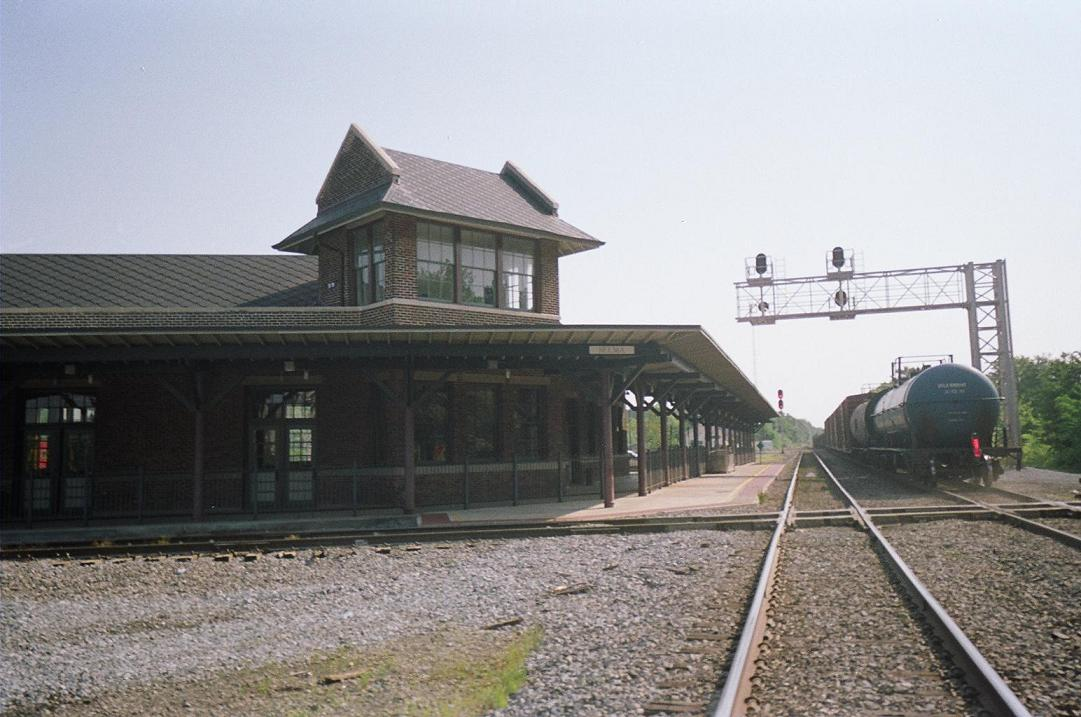 A CSX Freight train heads north as it crosses a Norfolk Southern Railway line at the historic Selma-Smithfield (Amtrak station), formerly known as the Selma Union Depot.